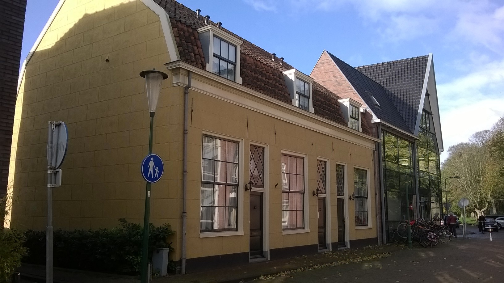 There two houses are the only original buildings in the old street. They are local heritage sites